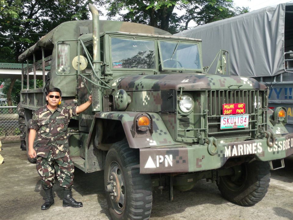 M35 (6X6) Truck assigned with the Philippine Marine Corps.